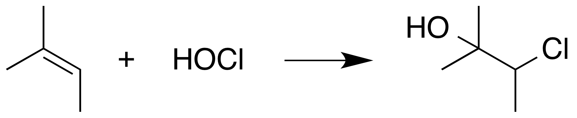 Skeletal structures for the halohydrin formation reaction reaction of 2-methyl-2-butene with hypochlorous acid.